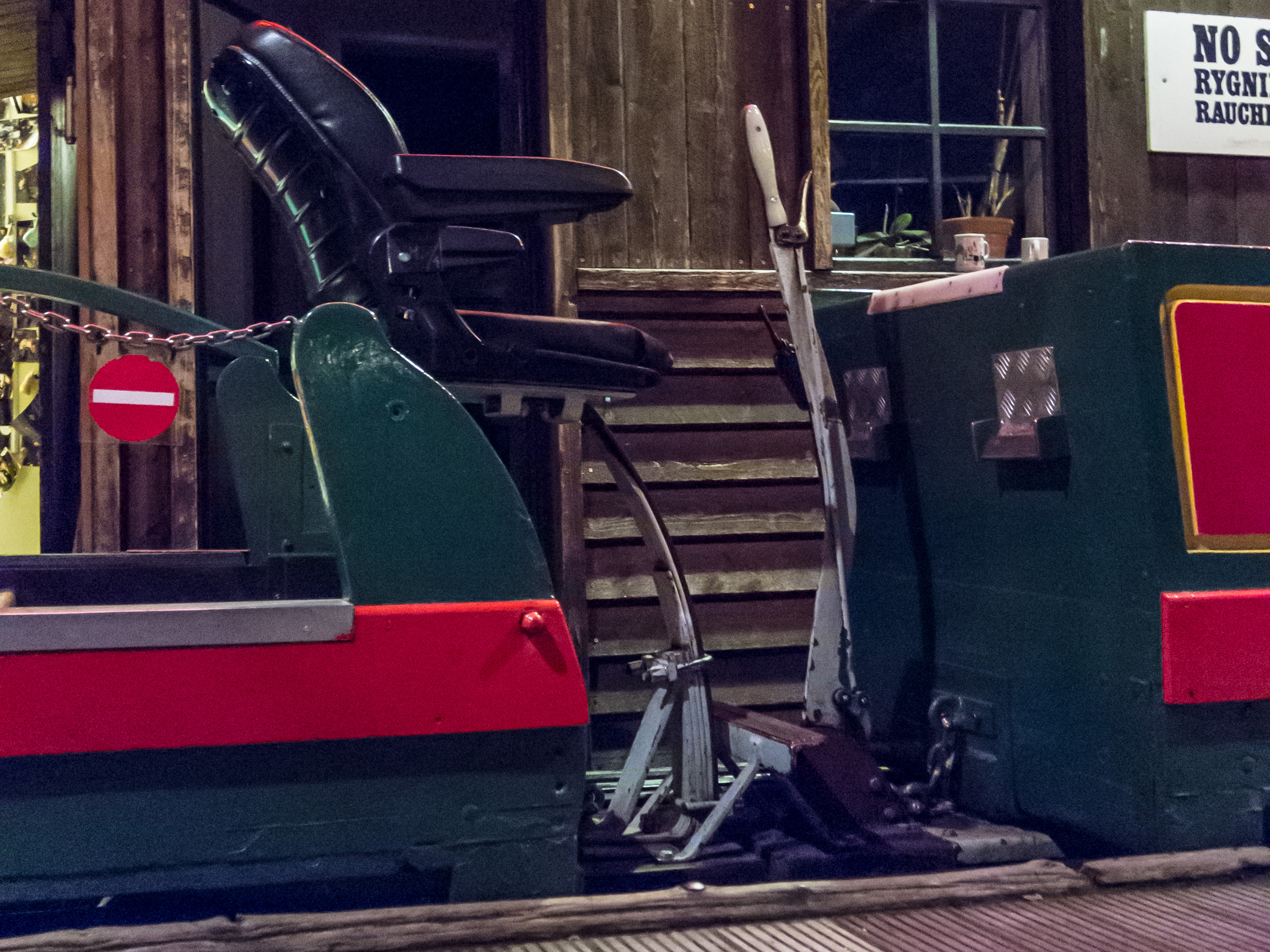 the breakeman's seat on a train of Rutschebanen at Tivoli Gardens, Copenhagen